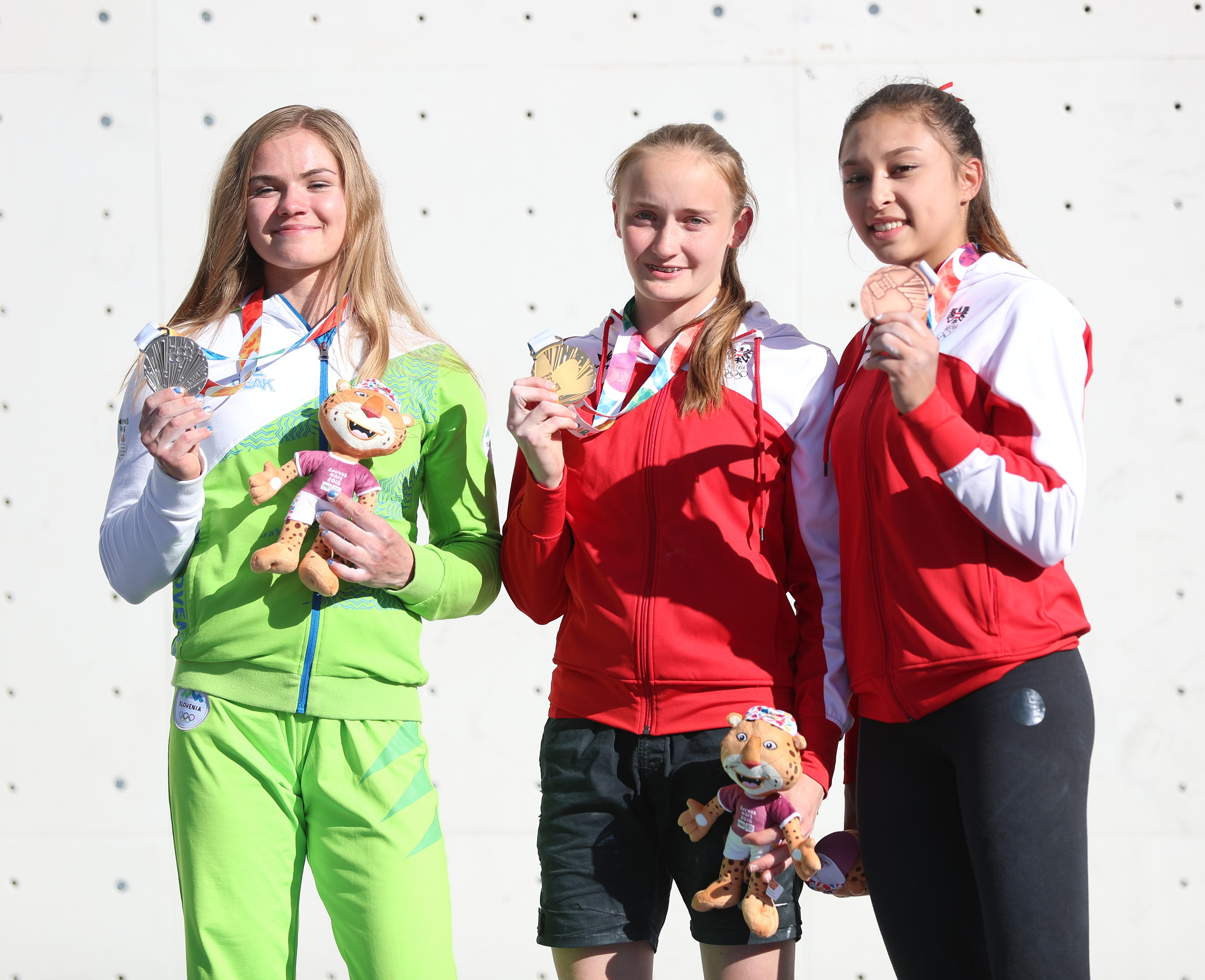 Victory ceremony of the girls' sport climbing at the 2018 Summer Youth Olympics in Buenos Aires on 9 October 2018.